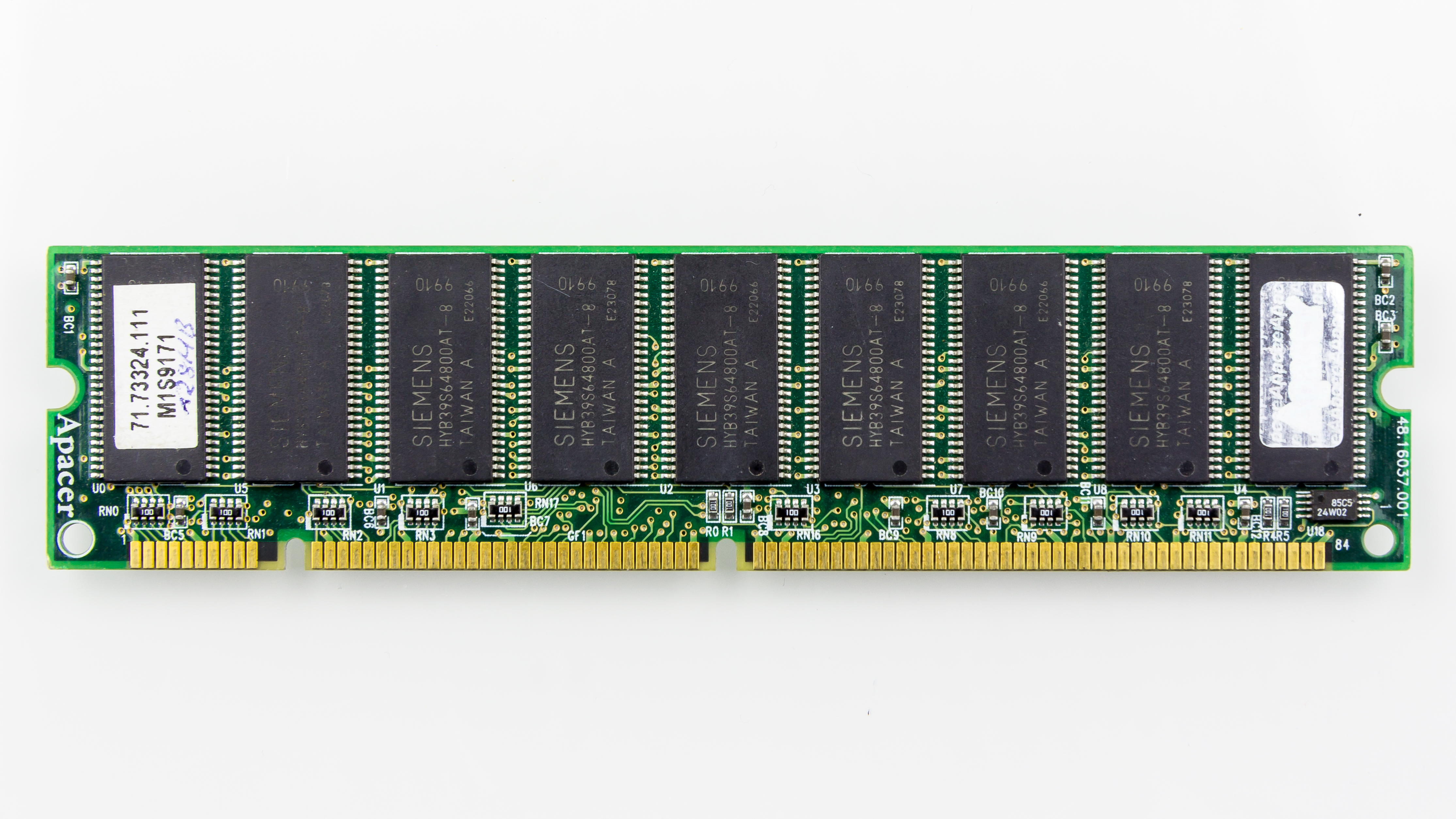 Apacer SDRAM with Siemens HYB39S64800AT-8